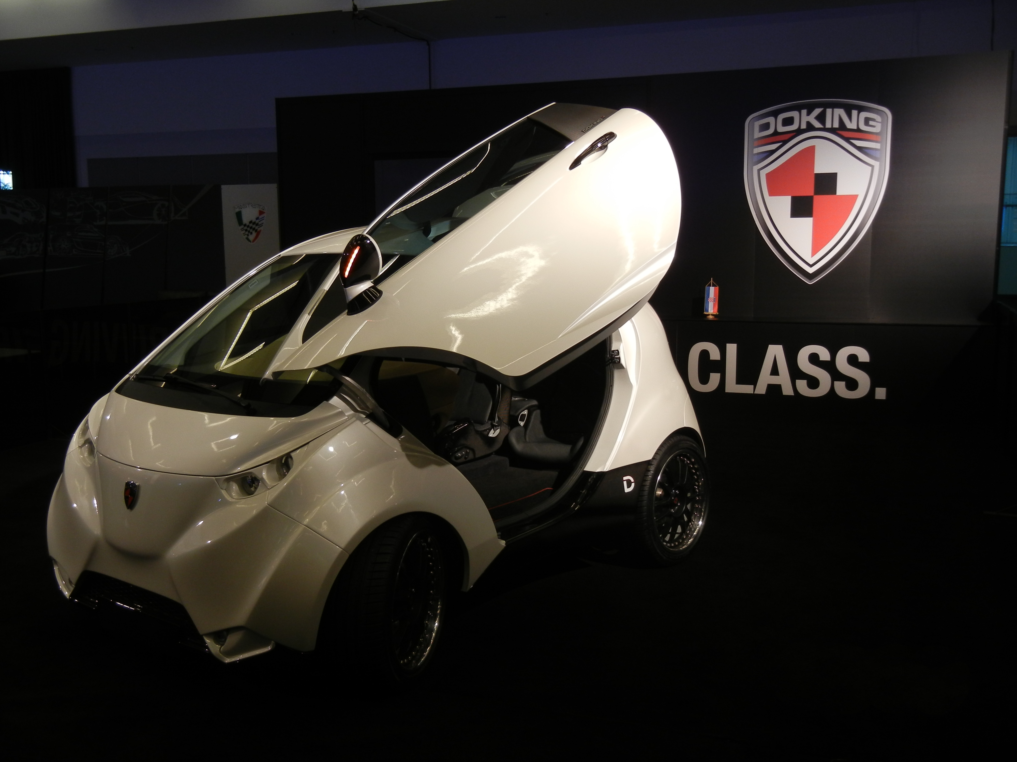 DOK-Ing at LA Auto Show